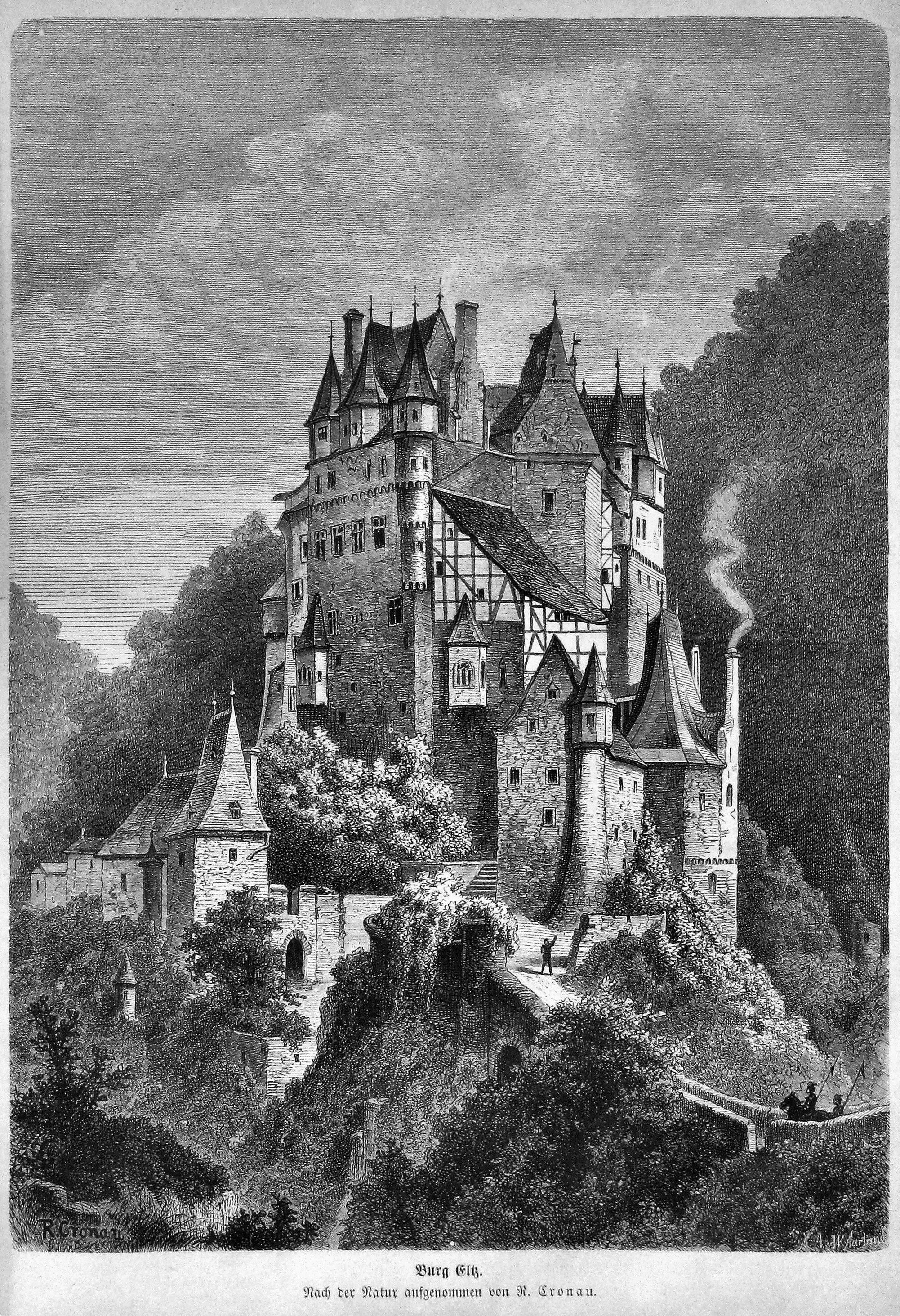 caption: "Burg Eltz. Nach der Natur aufgenommen von R. Cronau."